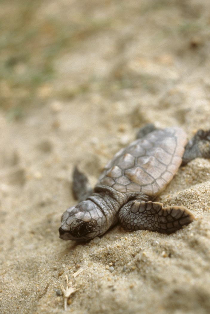 A baby Loggerhead Sea Turtle